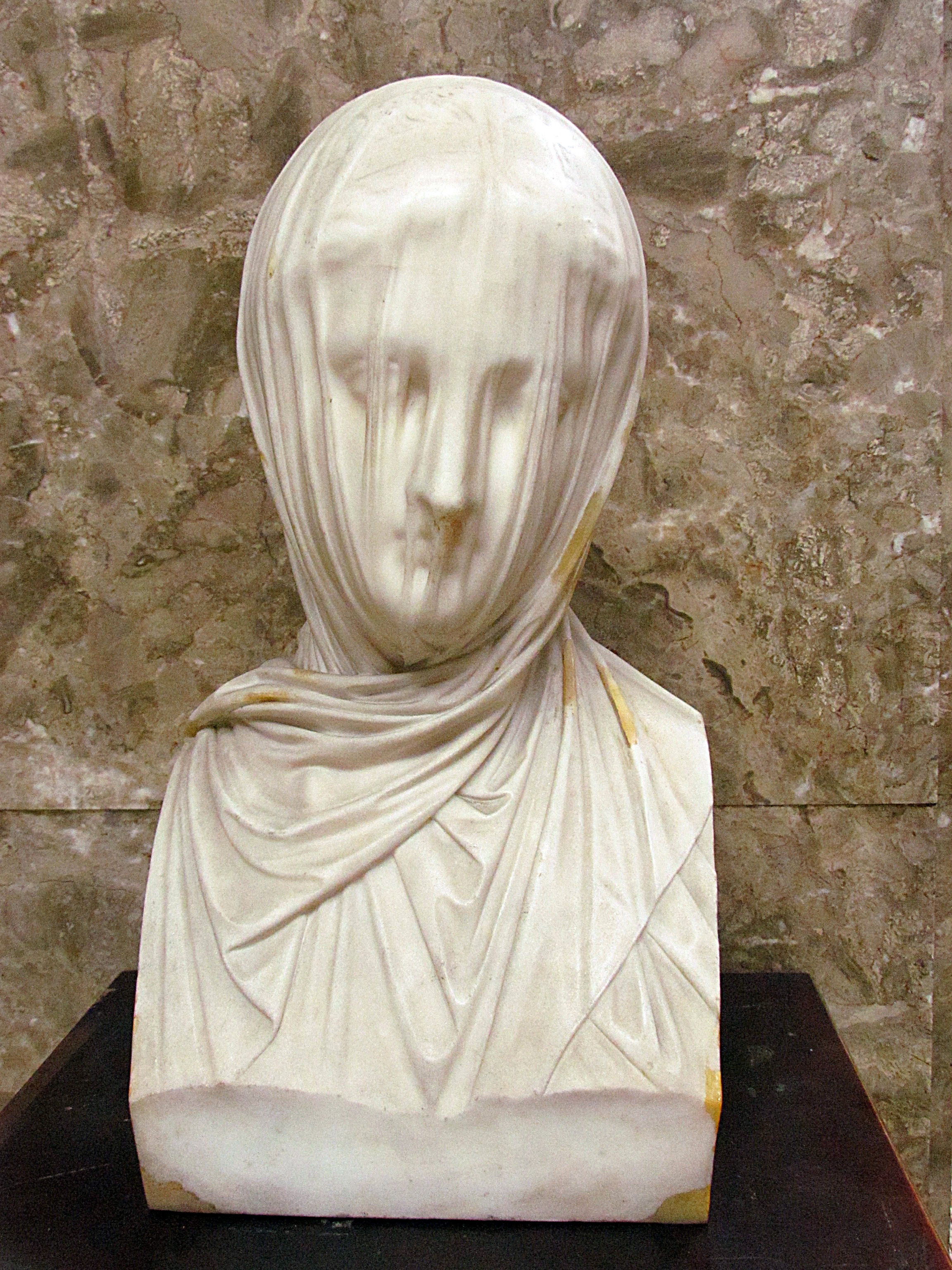 Veiled woman, c. 1860, the circle of Giuseppe Croff, National Museum, Belgrade